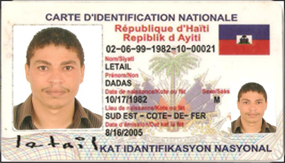 Republic of Haiti national identification card